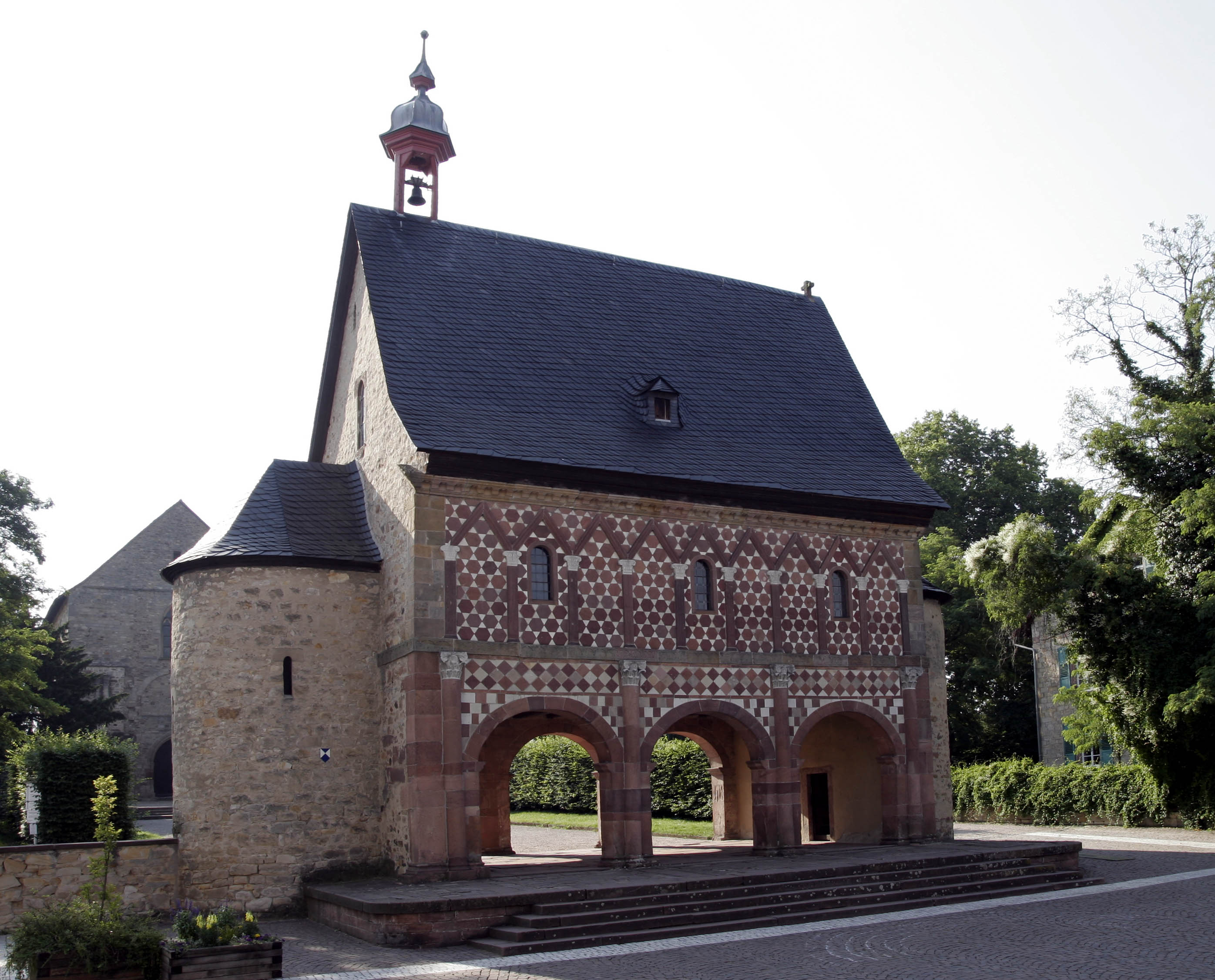 The Königshalle (Kingshall) of Lorsch Abbey.